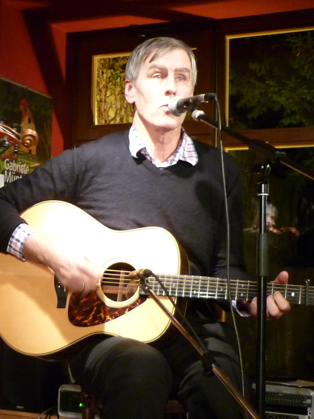 Robert Forster at the Buchhandlung Dombrowsky in Regensburg (Germany), 2012/12/08